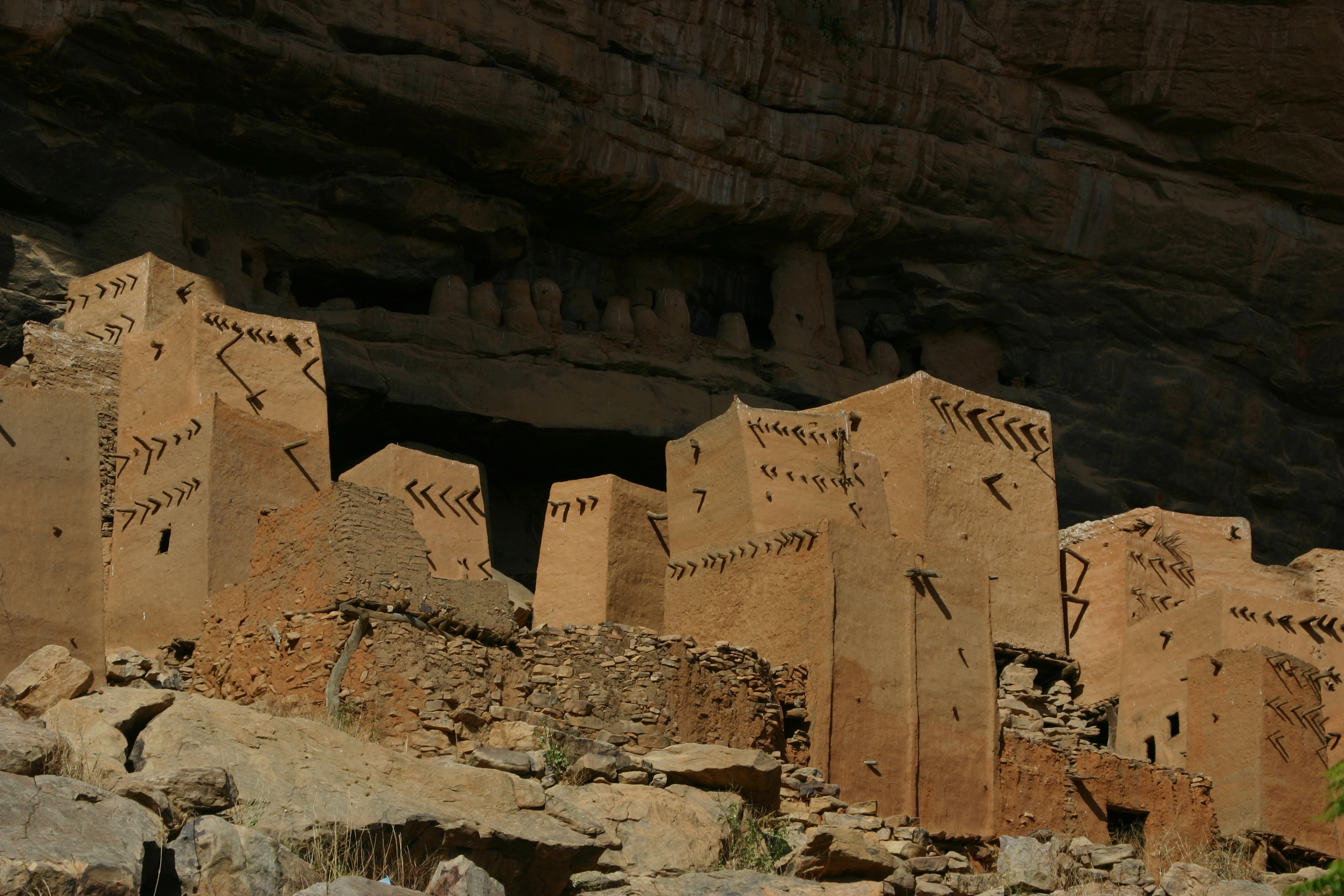 Cliff of Bandiagara, Dogon, Mali